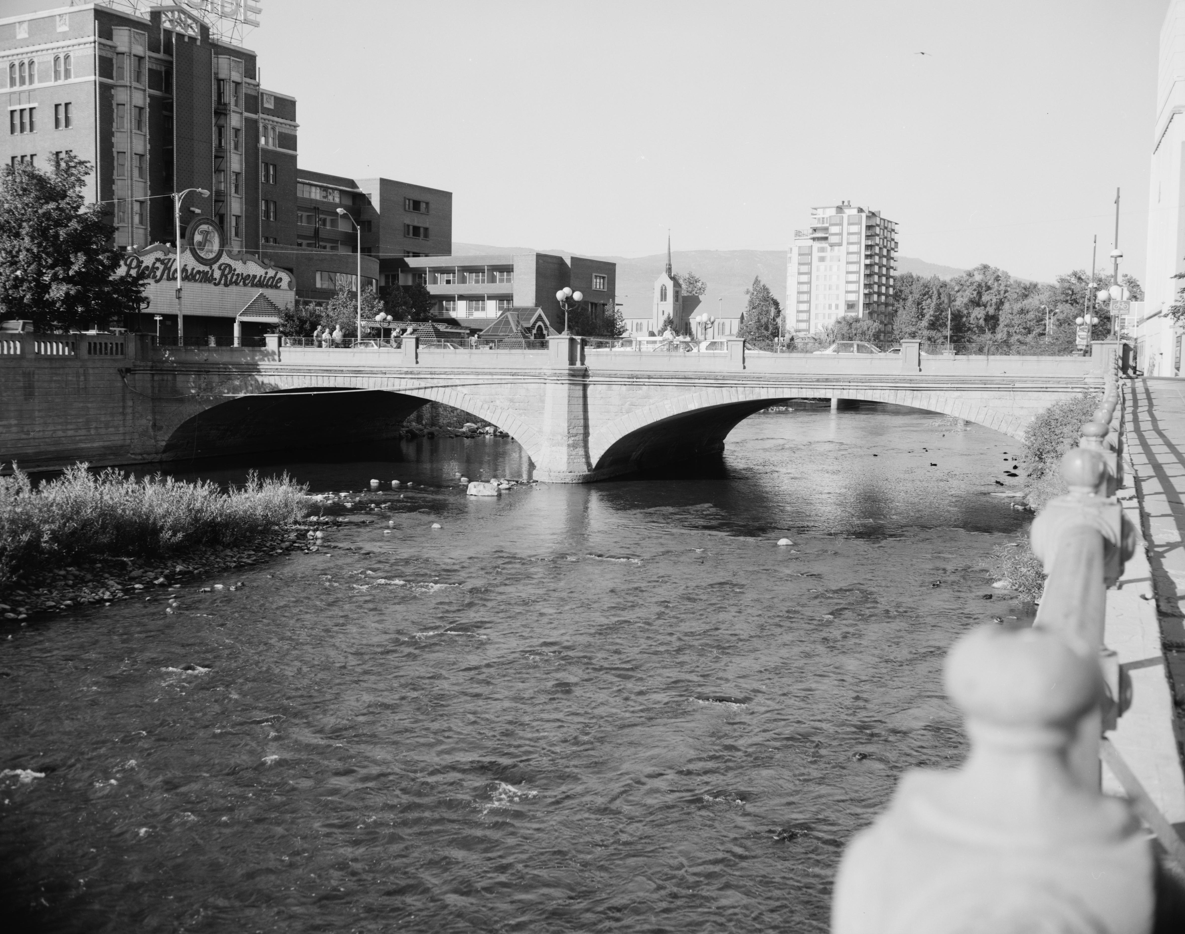 Eastern (downstream) side of the Virginia Street Bridge, which carries Virginia Street over the Truckee River in Reno, Nevada, United States. Built in 1905, the bridge is listed on the National Register of Historic Places.